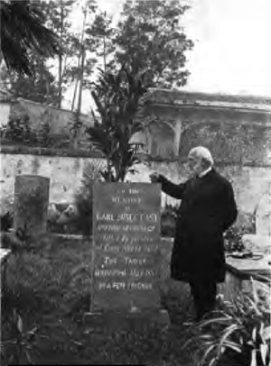 Tombstone of the Swedish missionary Carl Joseph Fast in Fuzhou, the man standing by is the American missionary Franklin Ohlinger.